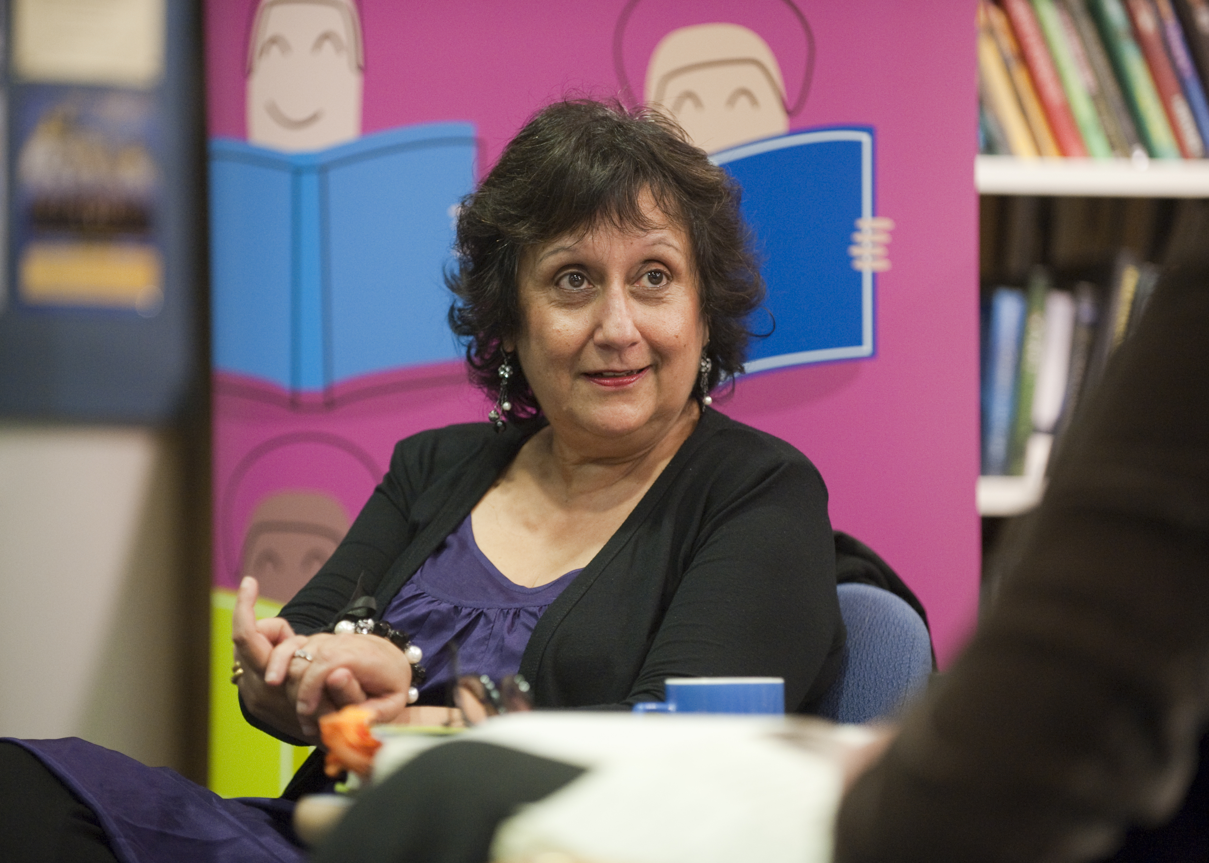 Yasmin Alibhai-Brown at Durham Book Festival 2009. Photo by Simon Veit-Wilson